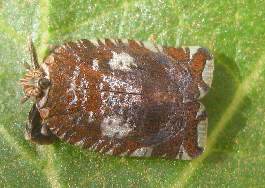 A bug of the family Lophopidae (Hemiptera). Here resting on a Jatropha leaf, but probably feeding on grass. Chimoio, Mozambique.